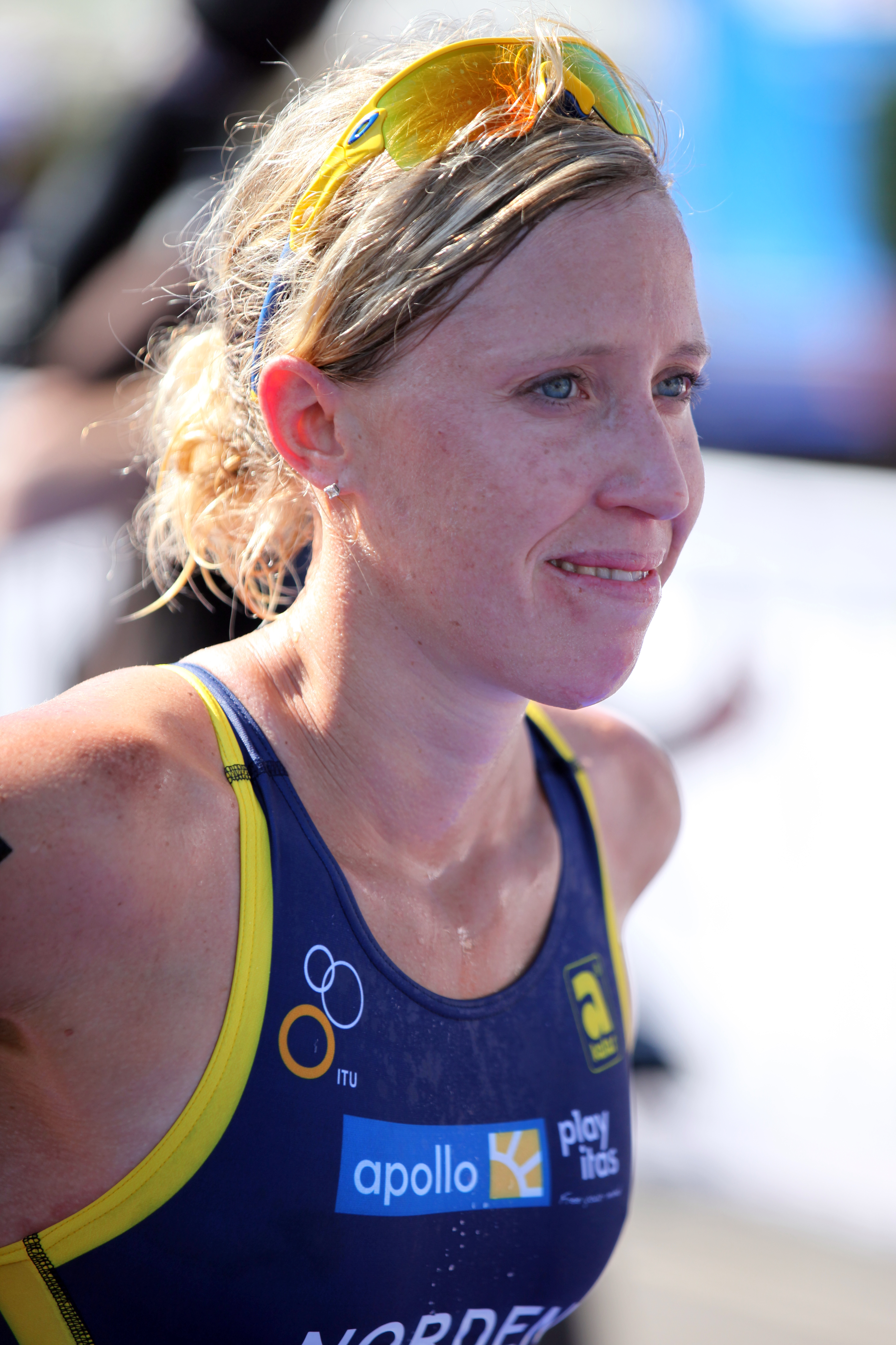 Lisa (Elina Elisabeth) Norden (Nordén) at the Triathlon Sprint World Championships in Lausanne.